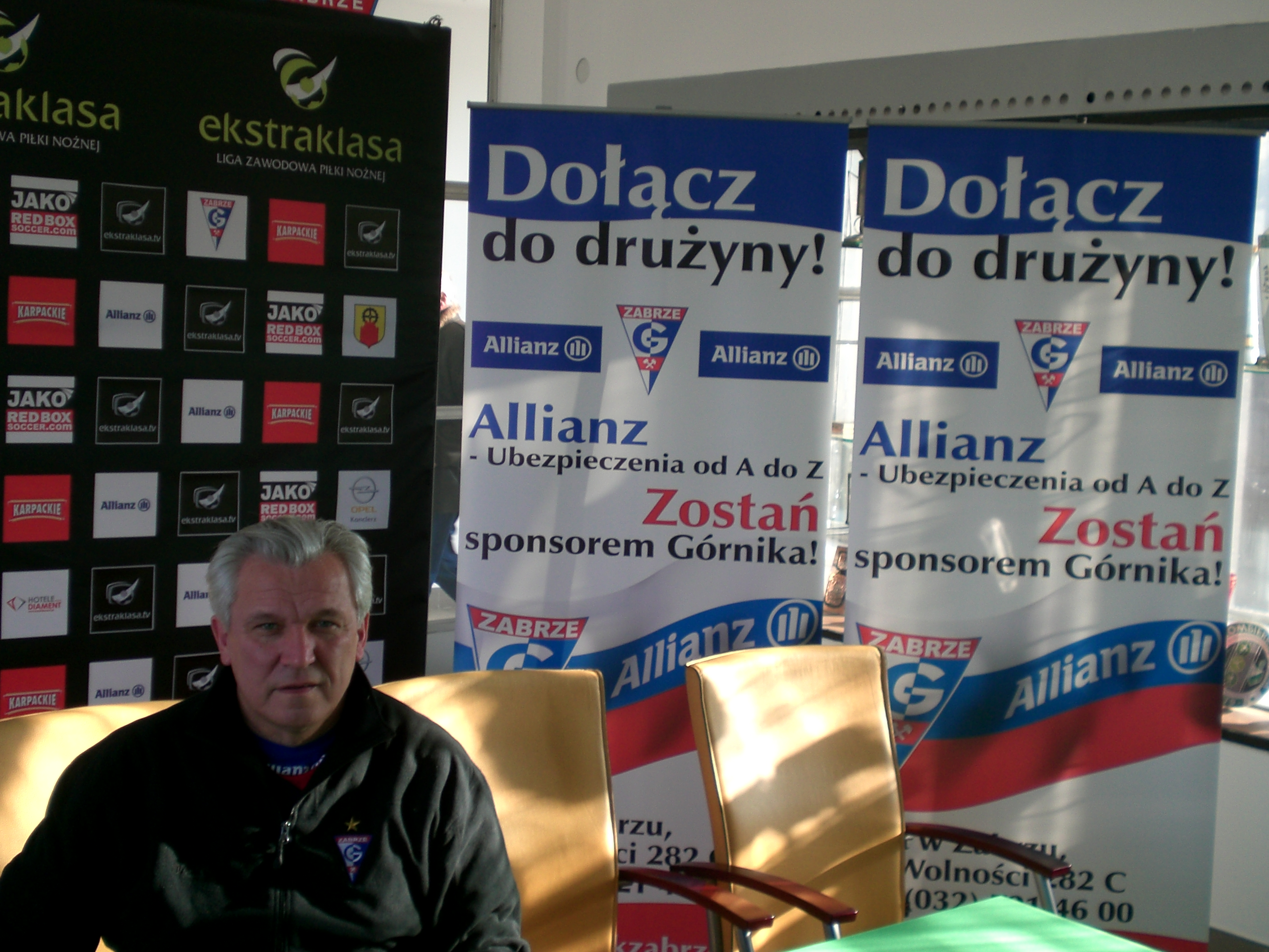 Polish football coach Henryk Kasperczak in Zabrze